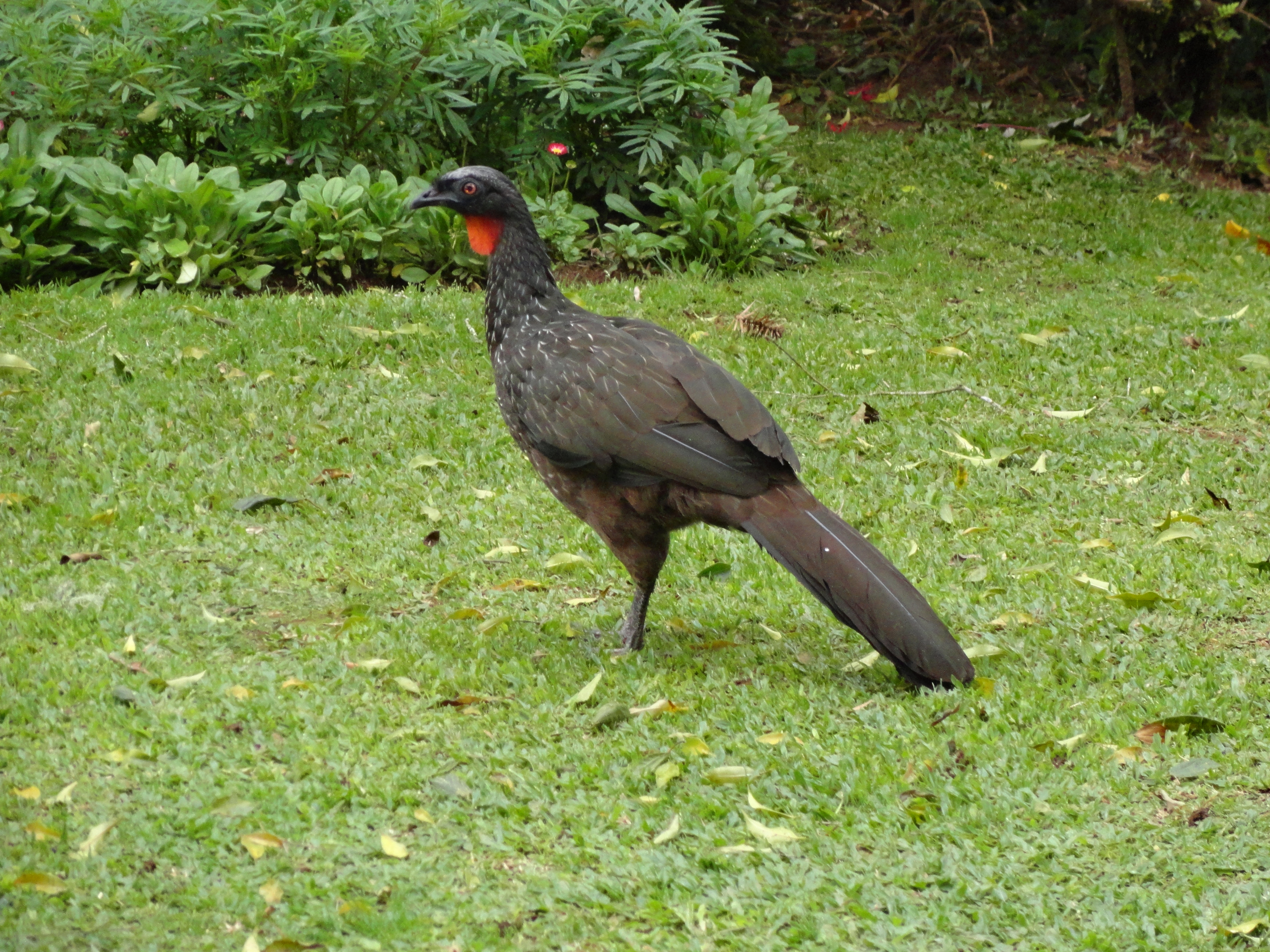 Dusky-legged Guan perching on a branch near Campos do Jordao, São Paulo, Brazil.